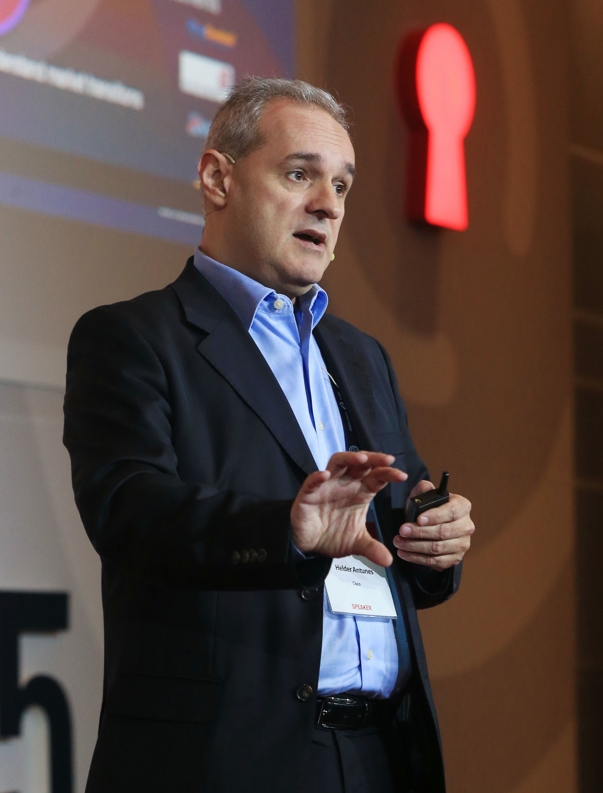 K.E.Y. Platform 2015 Back to Zero